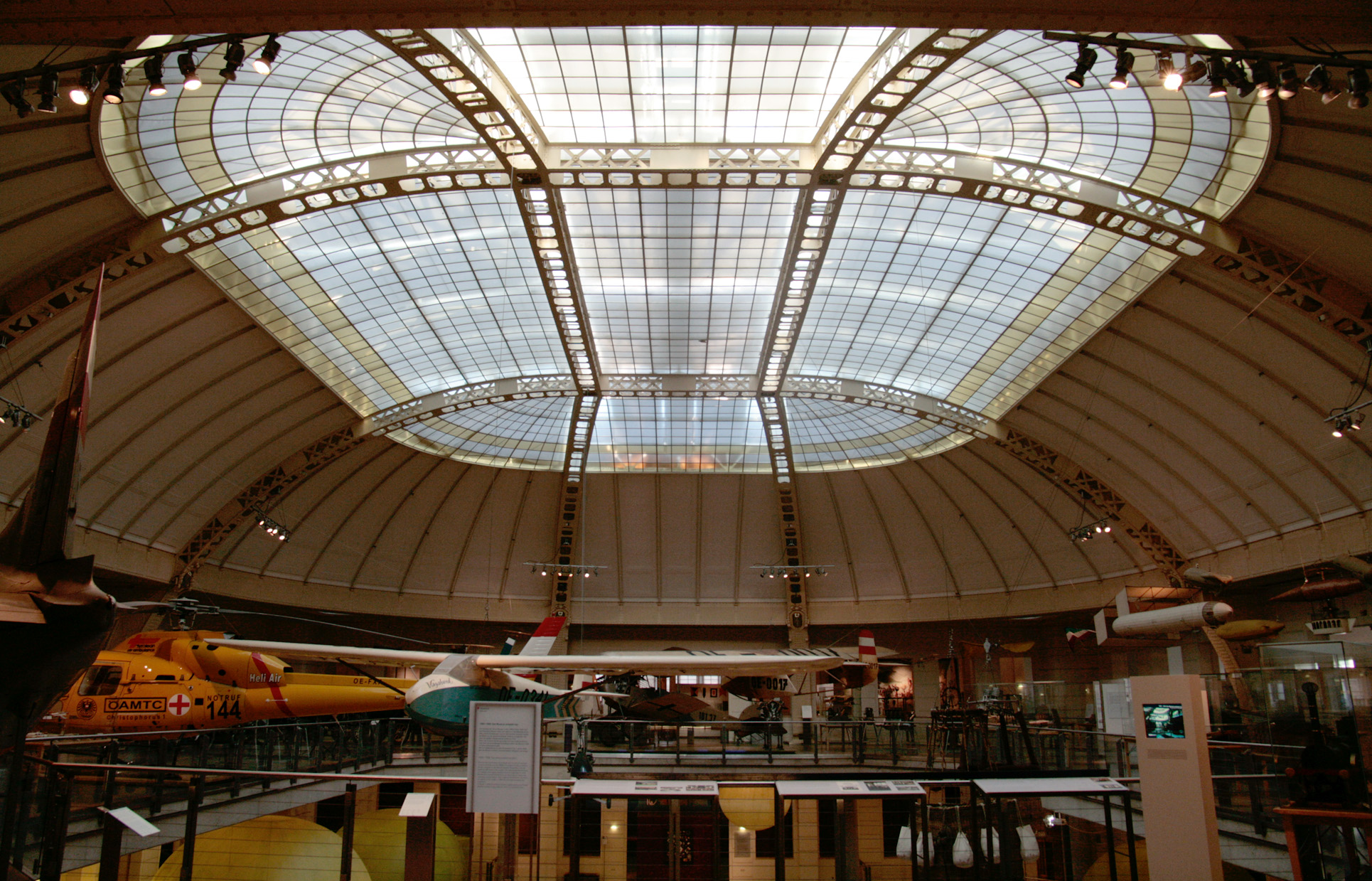 Vienna Technical Museum